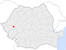 Location of Făget in Romania.